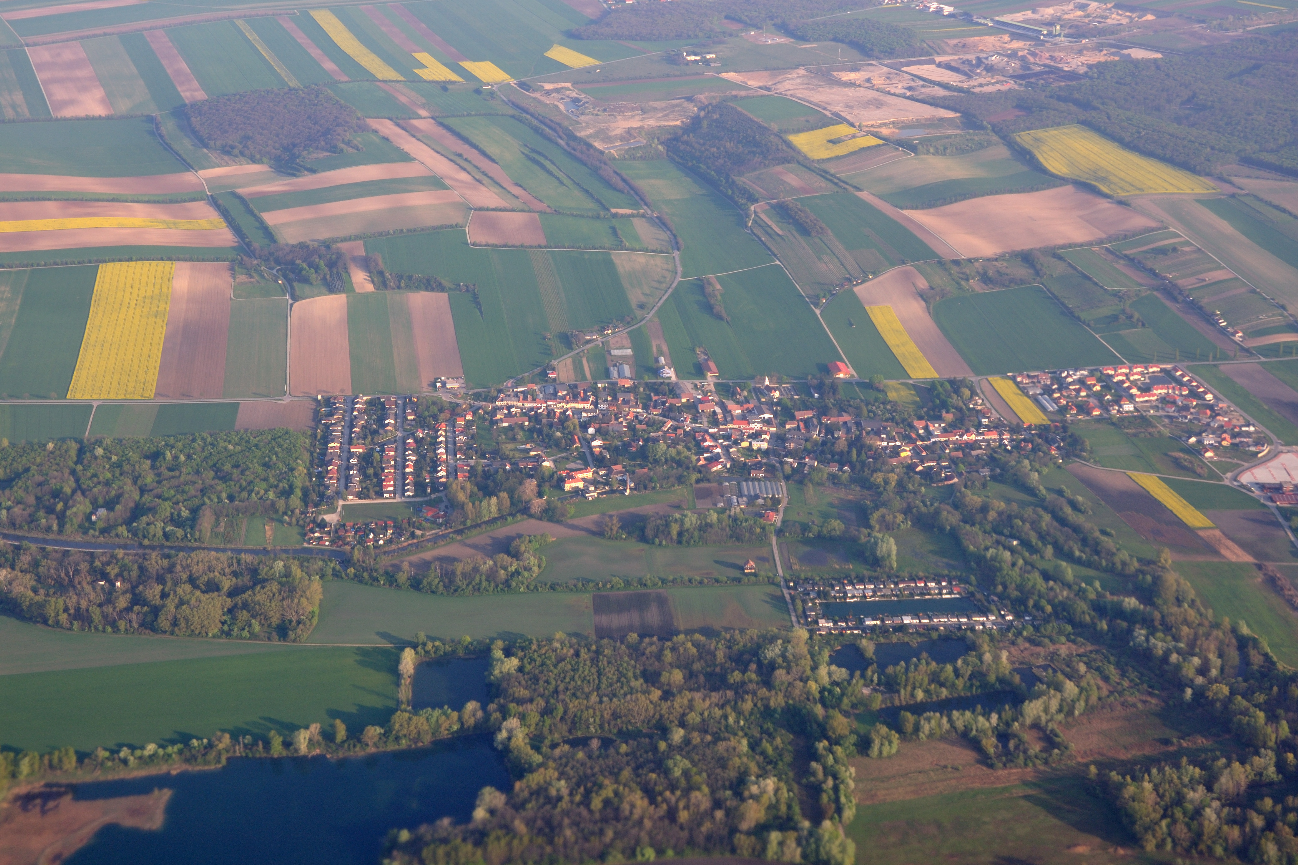 Austria, early morning take-off from Vienna Intl. Airport